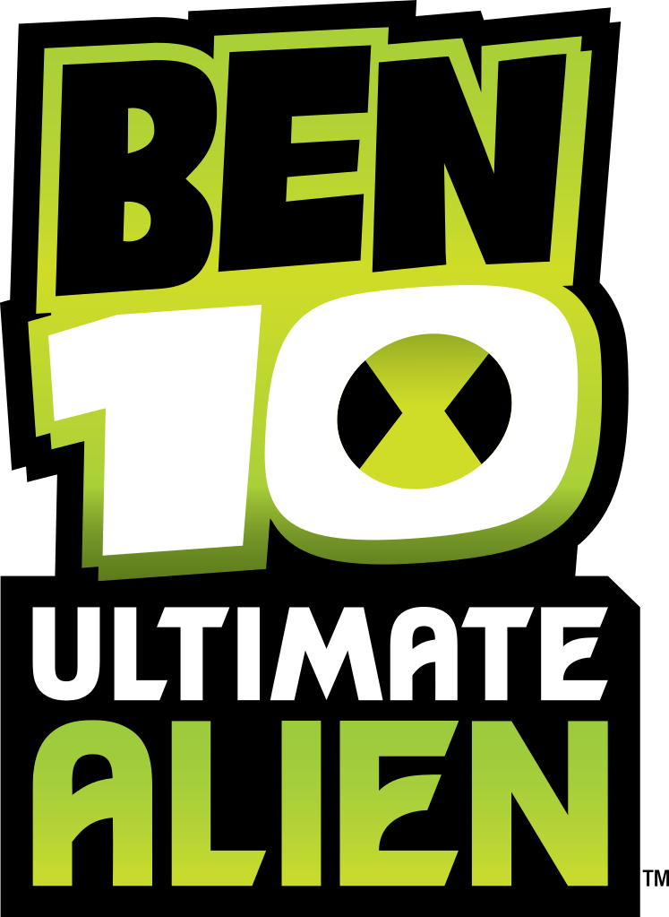 Ben 10 Ultimate Alien logo